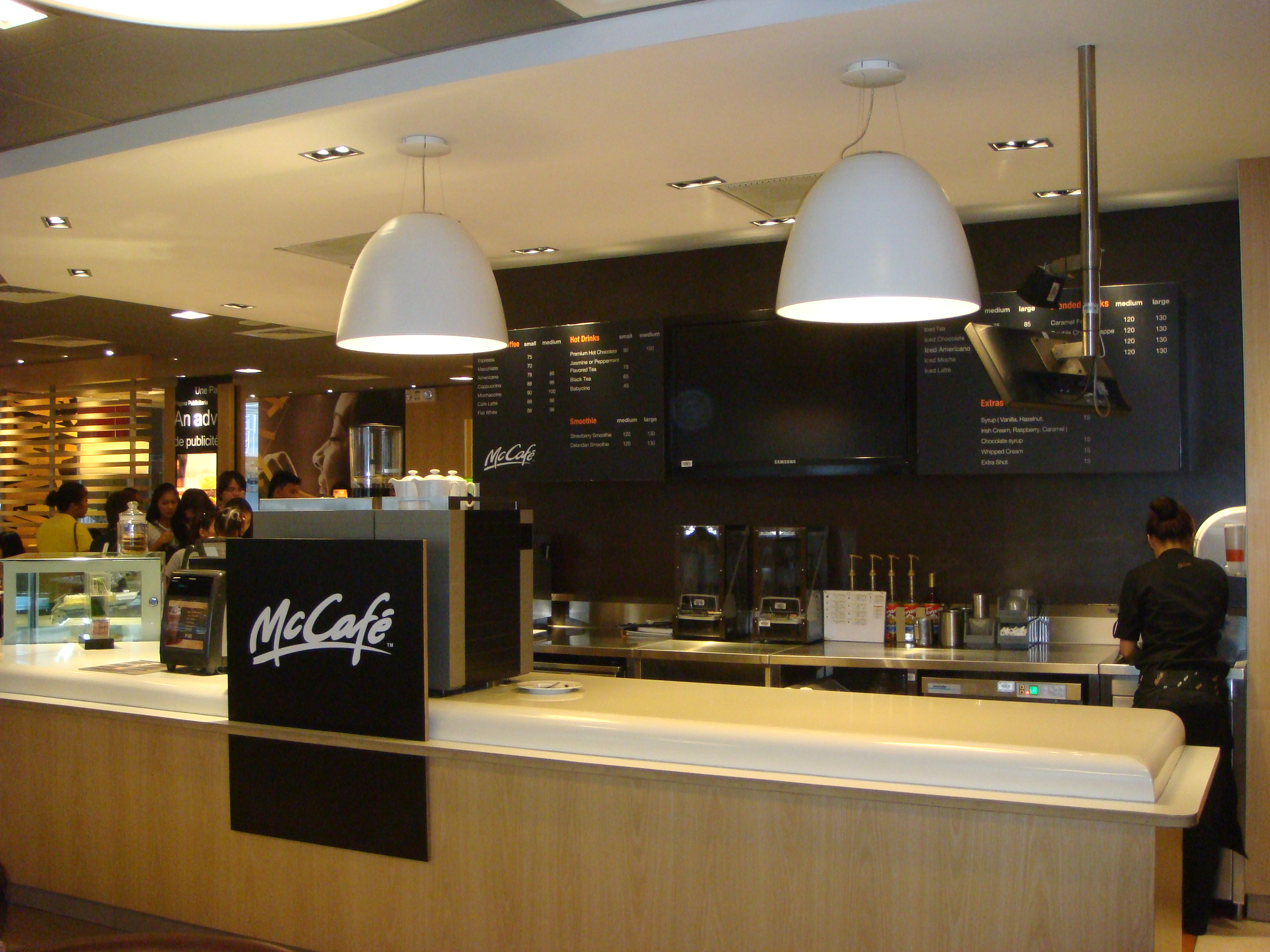 McCafe, McDonald, Greenhills, San Juan